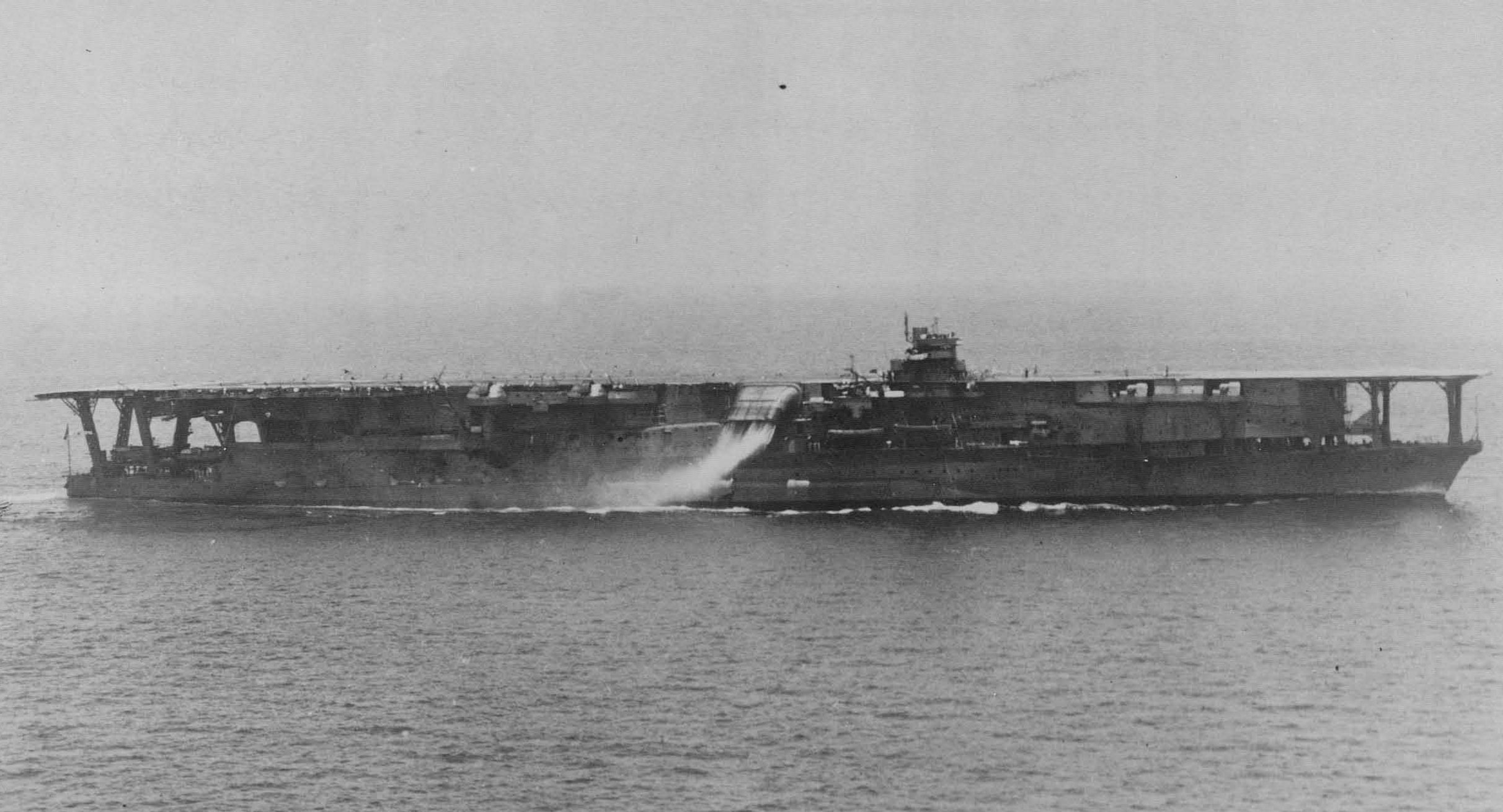 Imperial Japanese Navy Carrier Kaga: photo taken after her massive refitting. Its smokestack is directed downwards to extinguish the smoke with seawater.